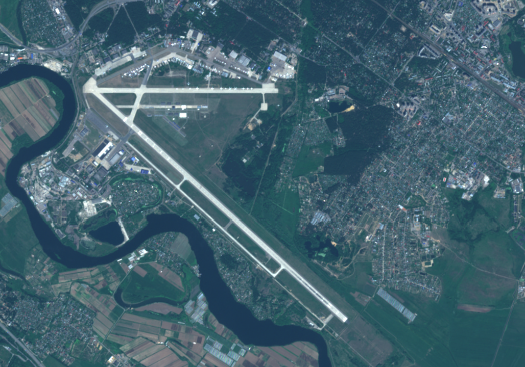 Zukovsky aerodeome, Sentinel-2 satellite image, spatial resolution 10m Script for process this file